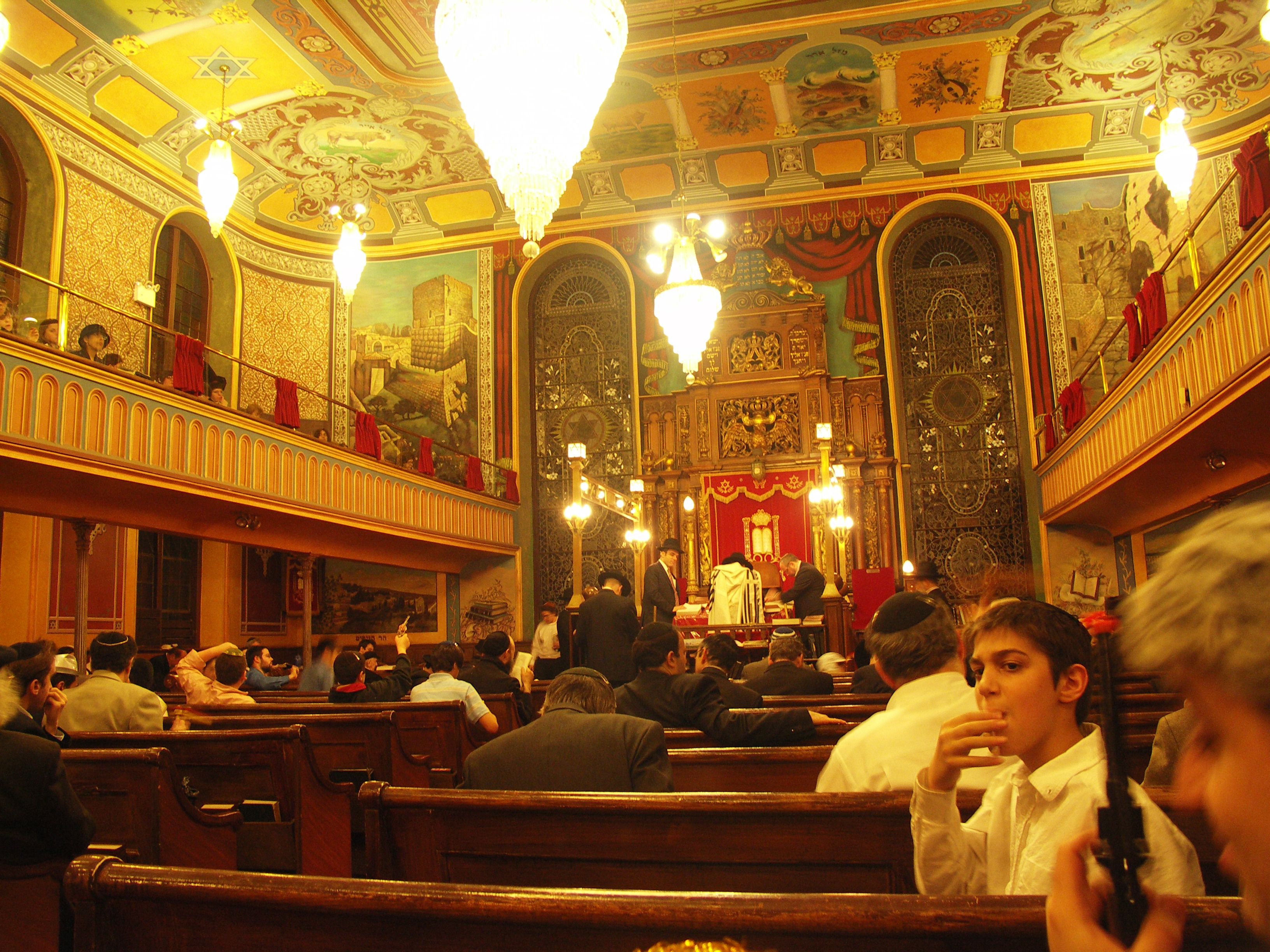 Synagogue interior Purim celebration in Bialystoker 2007